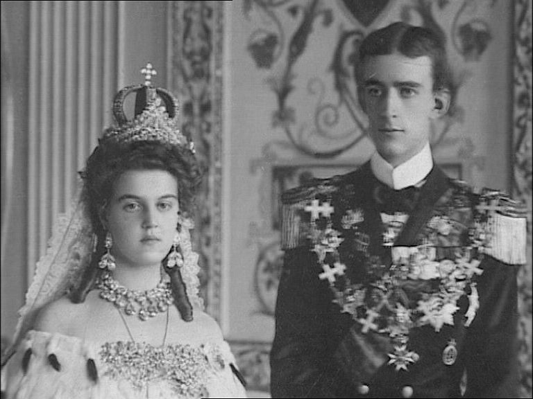 In Tsarskoye Selo Wilhelm married Grand Duchess Maria Pavlovna of Russia. She was a daughter of Grand Duke Paul Alexandrovich of Russia and Princess Alexandra of Greece, and was a cousin of the reigning Russian tsar, Nicholas II.